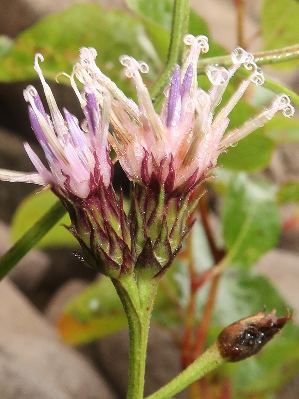 Saussurea mihoko-kawakamiana, Mount Higashi-Kagonotoyama, Nagano pref., Japan